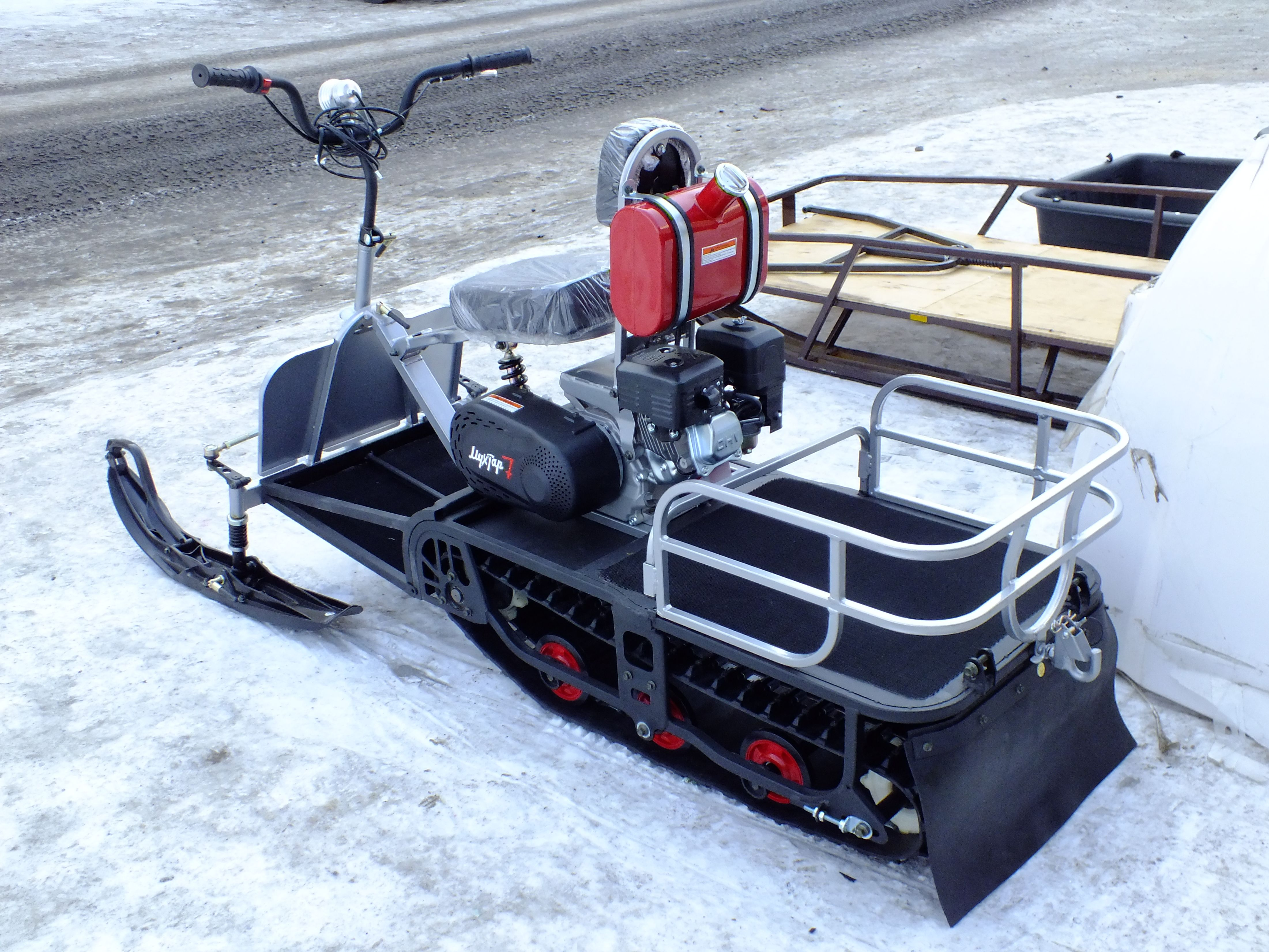 Snowmobiles in Russia